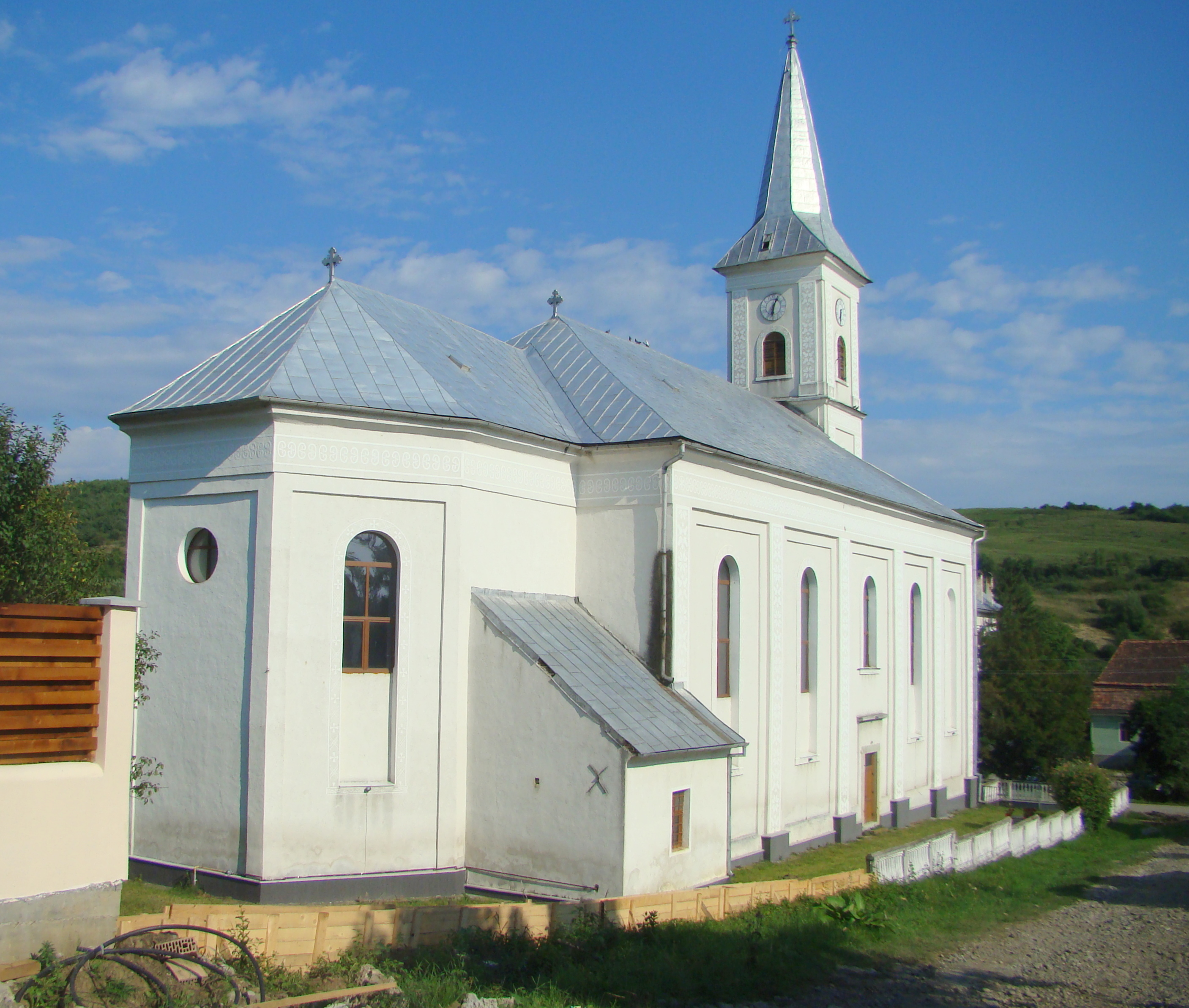 Former lutheran church in Satu Nou, Bistrița-Năsăud county, Romania